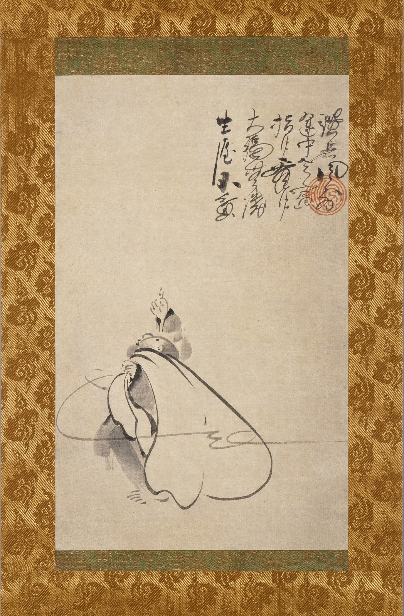 Japan, 16th-17th century Paintings; scrolls Hanging scroll; ink on paper Gift of Murray Smith (AC1997.19.2) Japanese Art